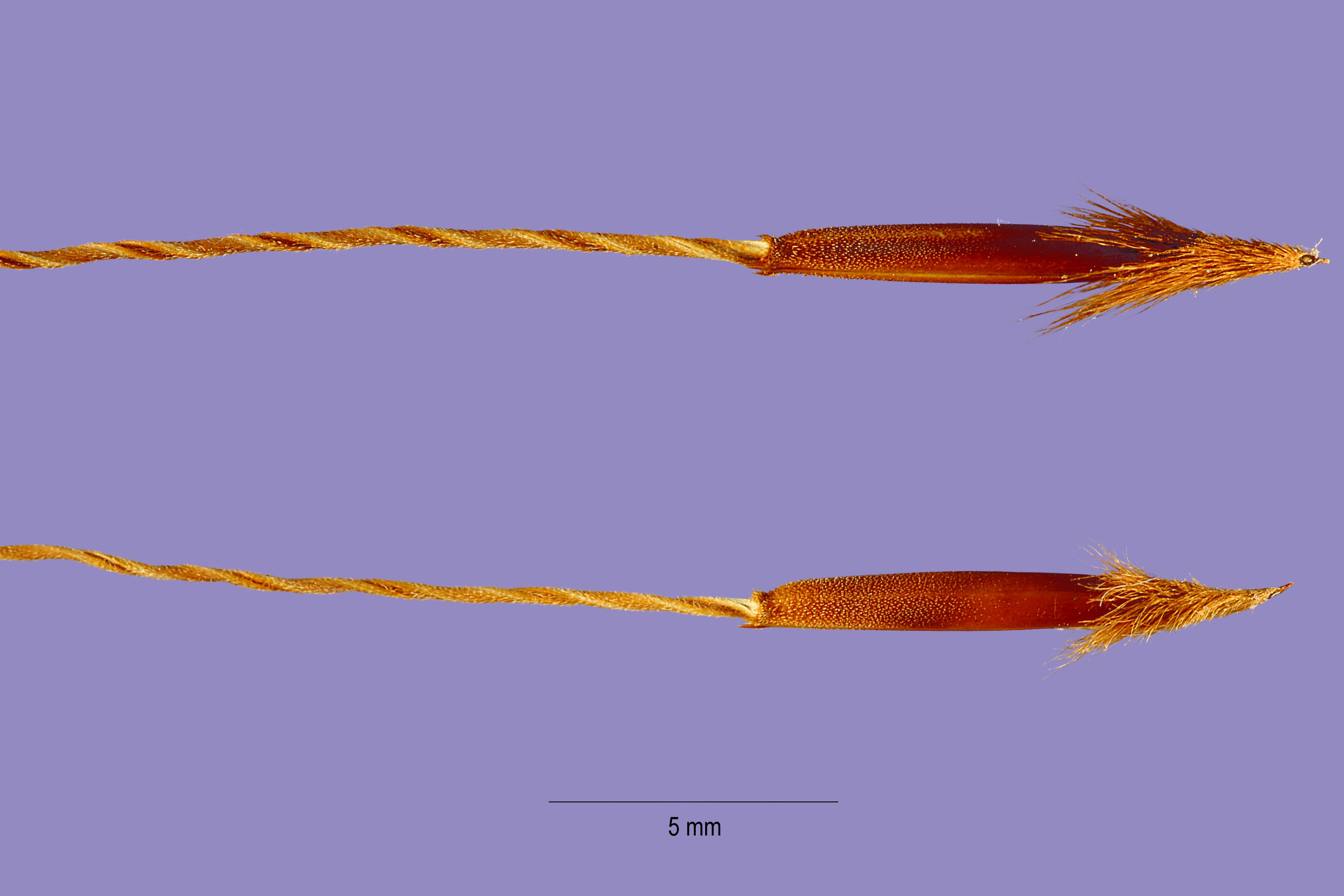 Piptochaetium avenaceum (L.) Parodi - blackseed speargrass